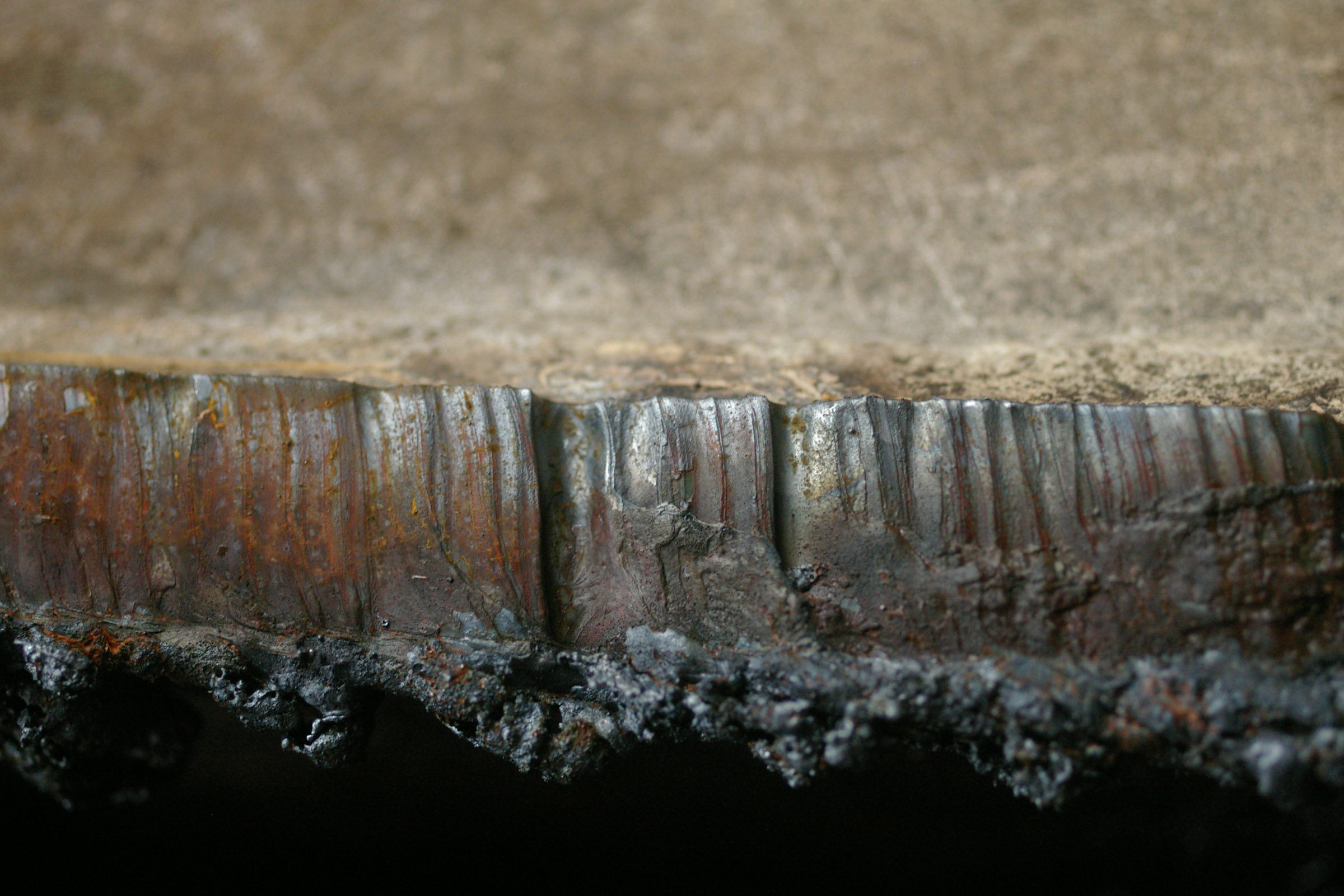 Heavy metal cut with a plasma cutter freehand. Clean on the front side but dross often on the back side.